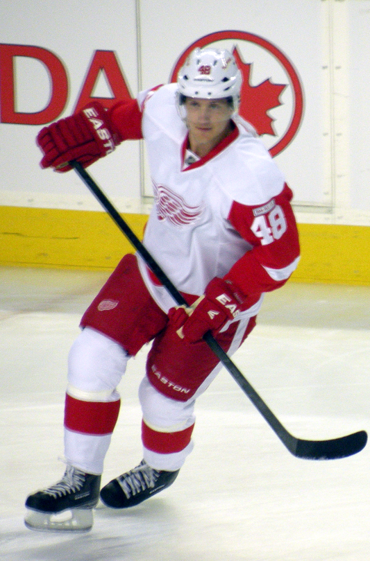 Detroit Red Wings forward Cory Emmerton prior to a National Hockey League game against the Calgary Flames.